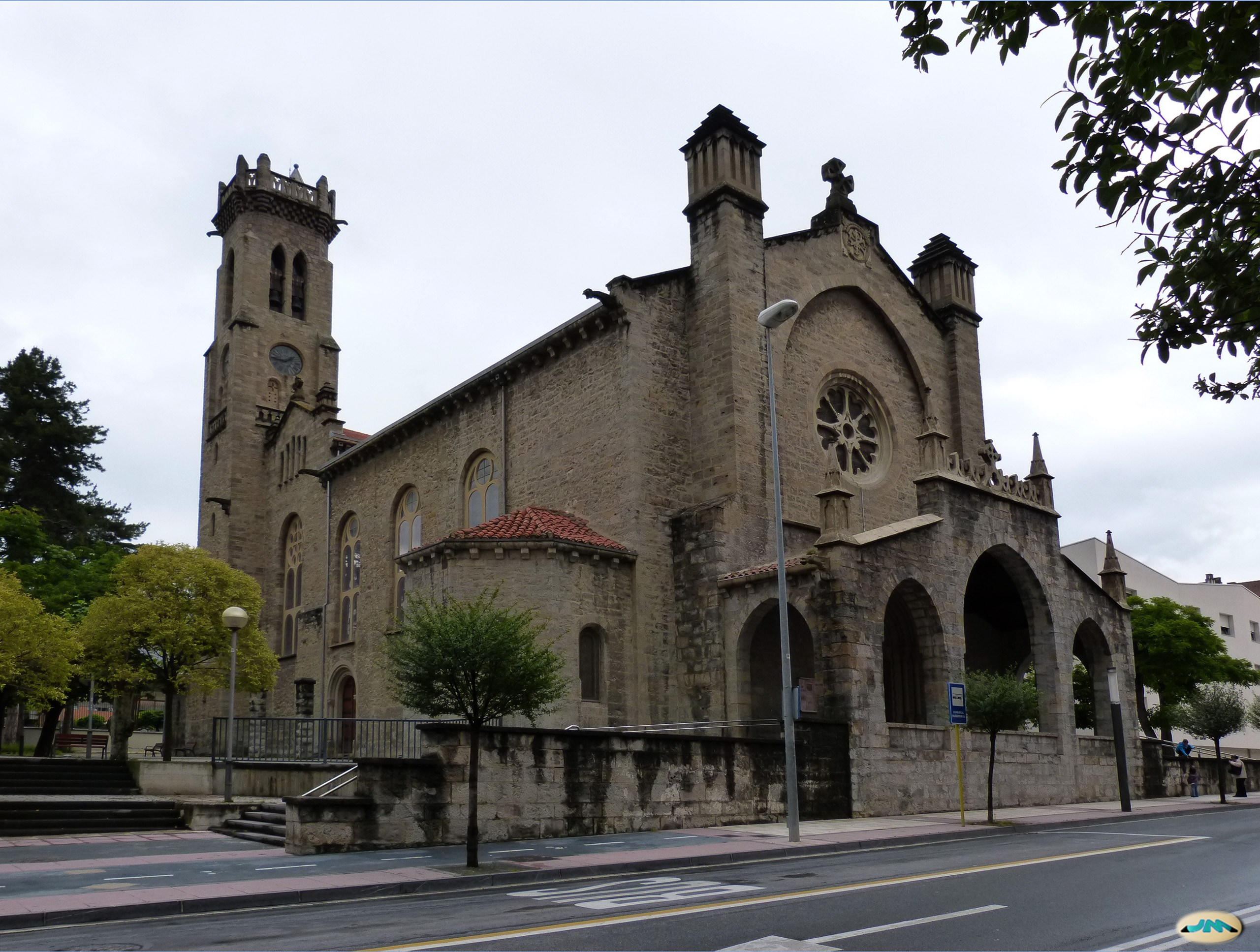 San Salvador church, Arrotxapea, Pamplona-Iruñea, Navarre, Basque Country